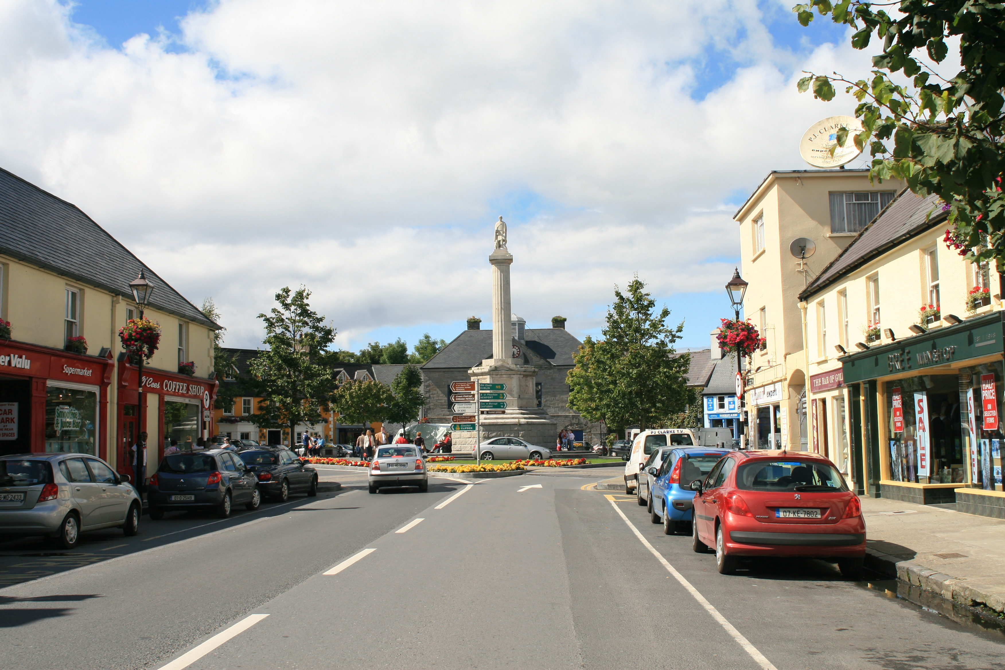 Westport, County Mayo, Ireland Octagon, as seen from the Shop Street.